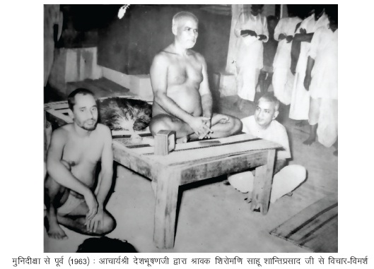 Kshulak Parshvakirti requesting Acharya Deshbhushan ji for initiating him as Jain Muni